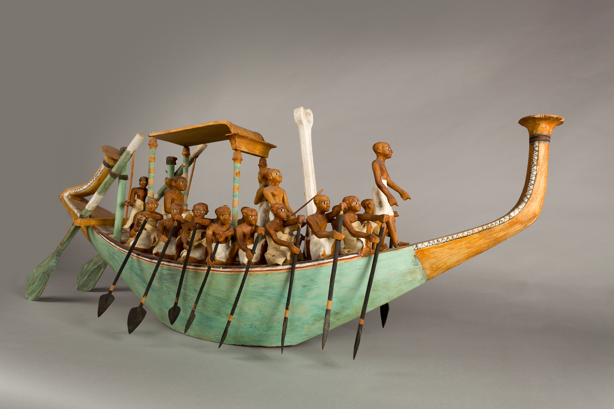 Boat, funerary, Meketre